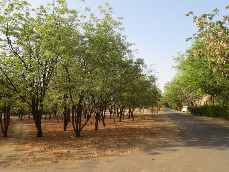 Azadirachta indica planted in colony along with other trees